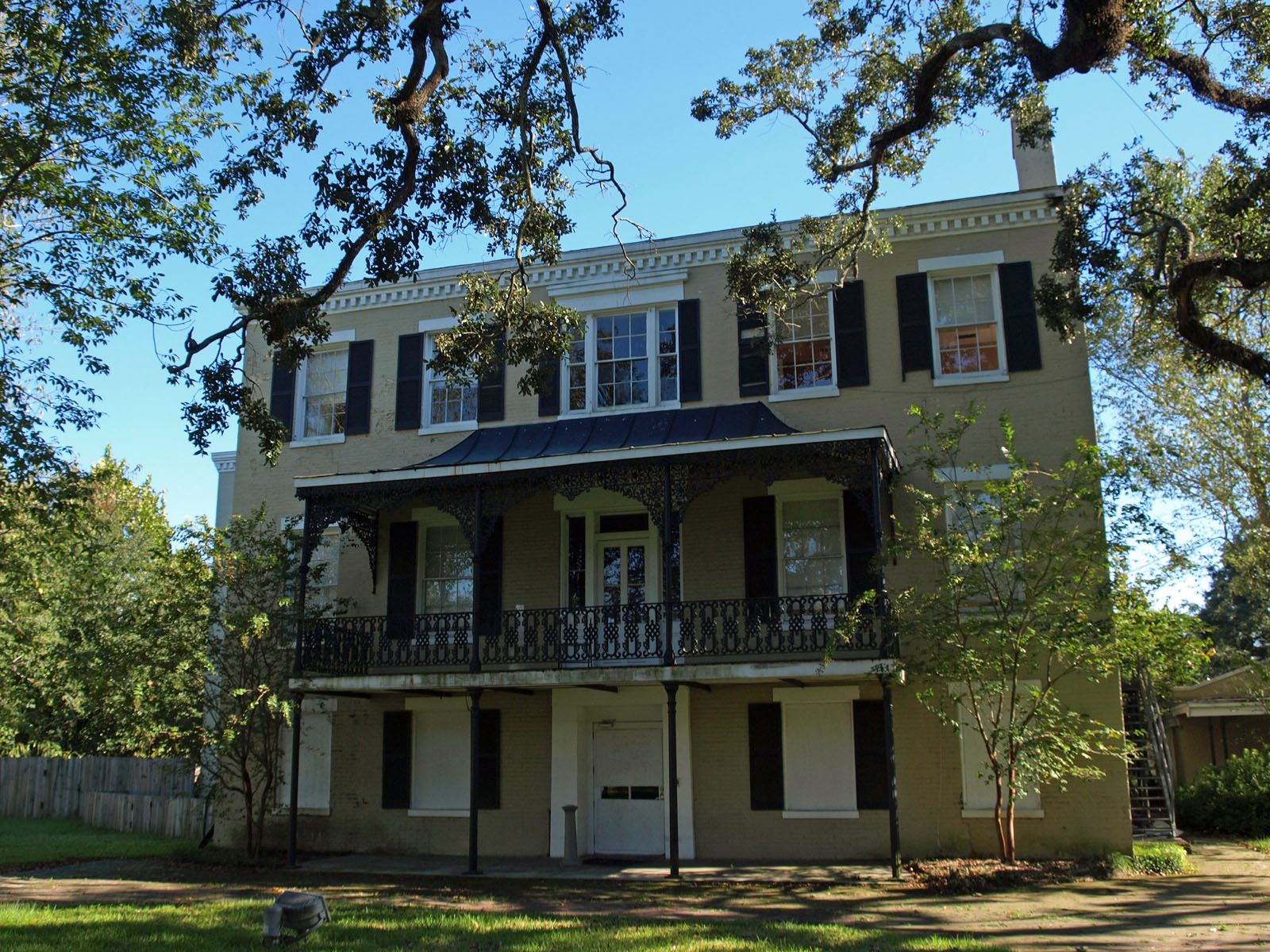 The Protestant Children's Home in Mobile, Alabama, listed on the National Register of Historic Places.